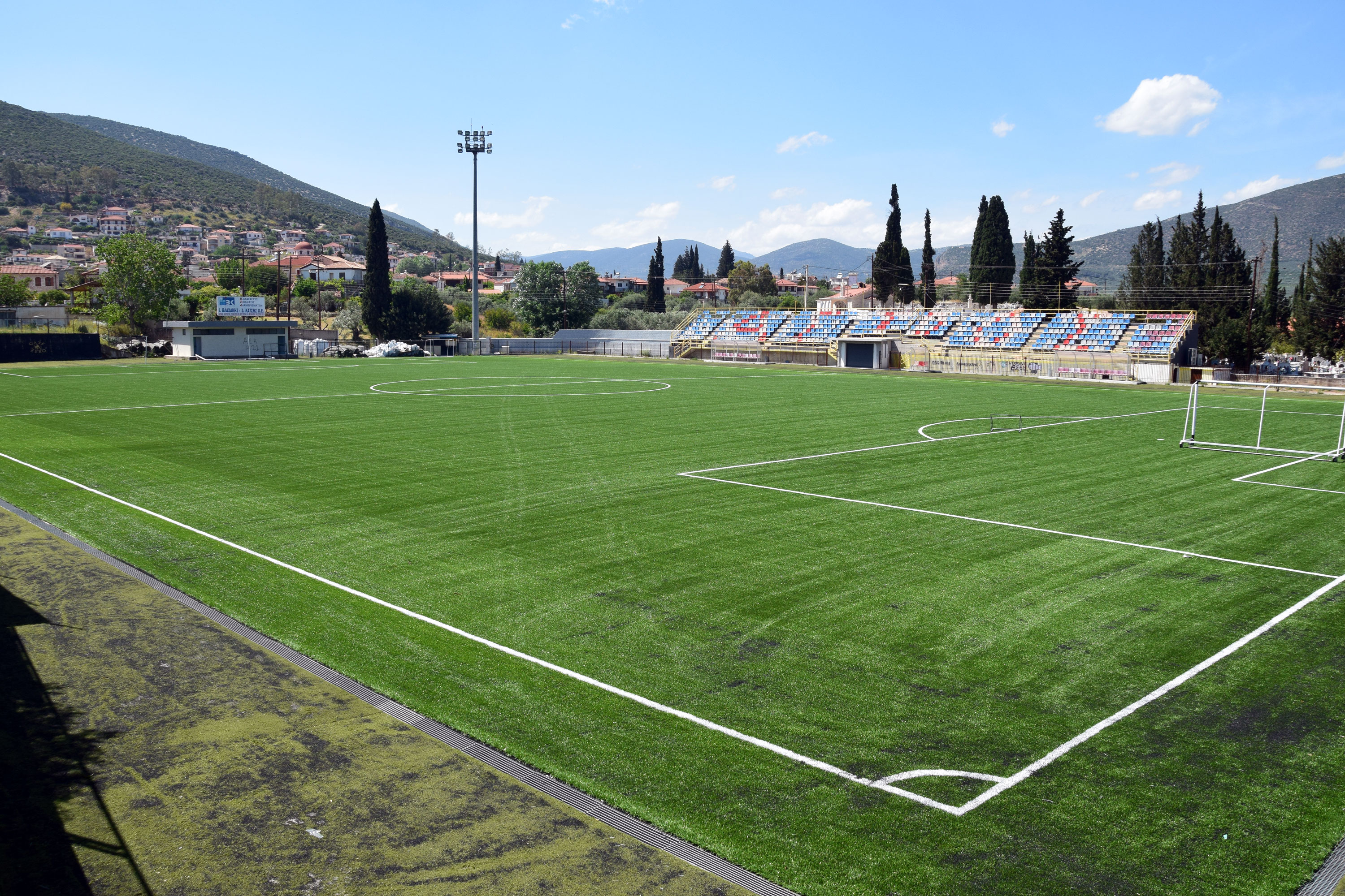 Το Δημοτικό γήπεδο Άστρους Κυνουρίας.